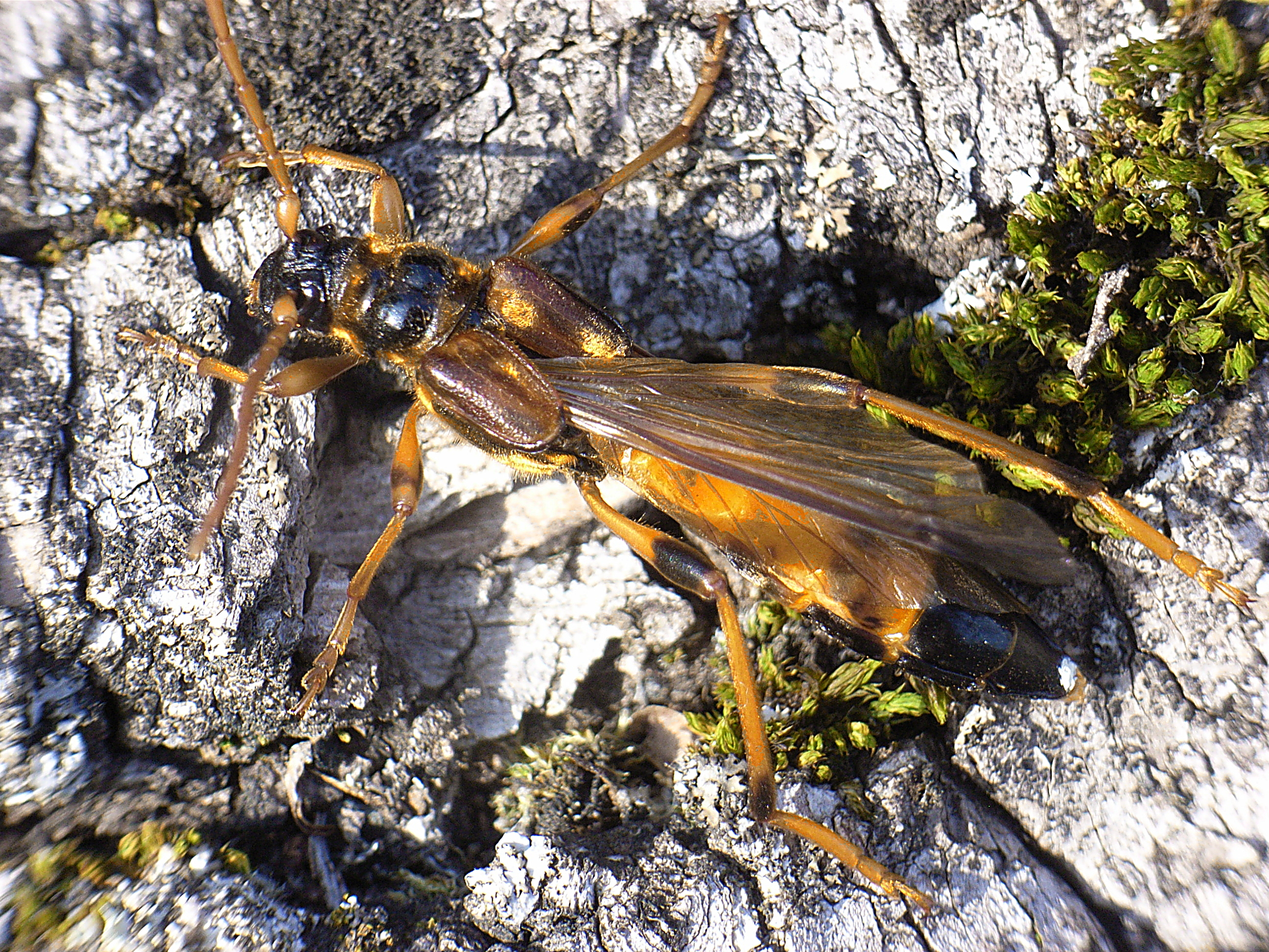 Necydalis ulmi female from Hungary, photographed on 2010-07-08